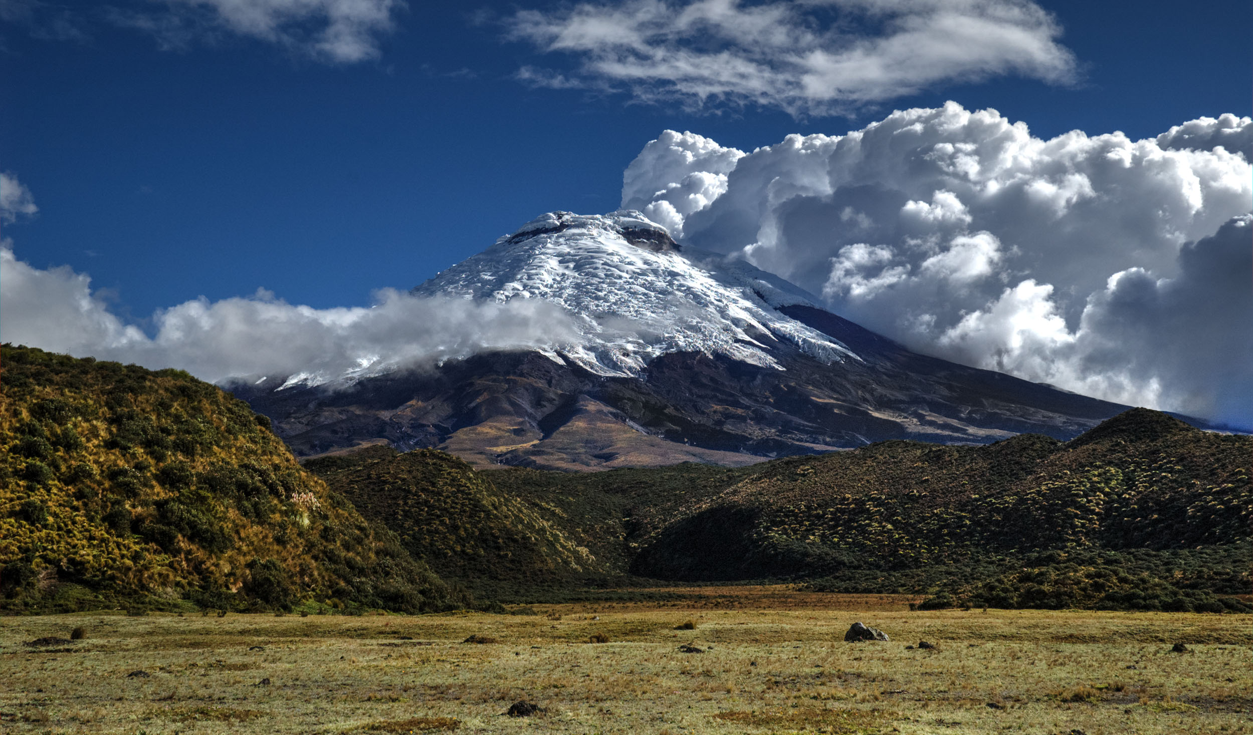 Cotopaxi